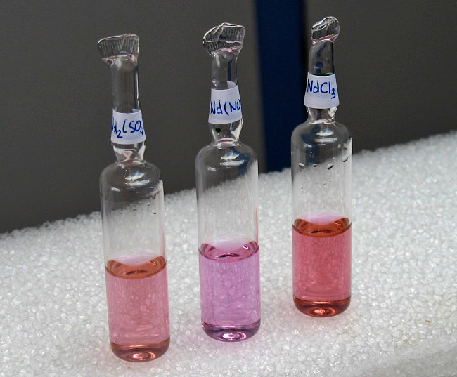 Neodymium sulfate, nitrate, and chloride solutions in normal sunlight